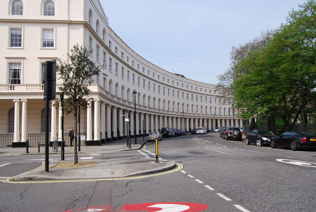 Park Crescent, West A fine piece of Georgian architecture